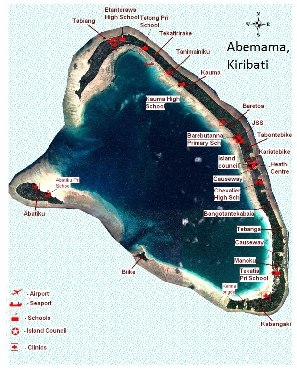 Astronaut photo of Abemama, Kiribati with villages and main landmarks